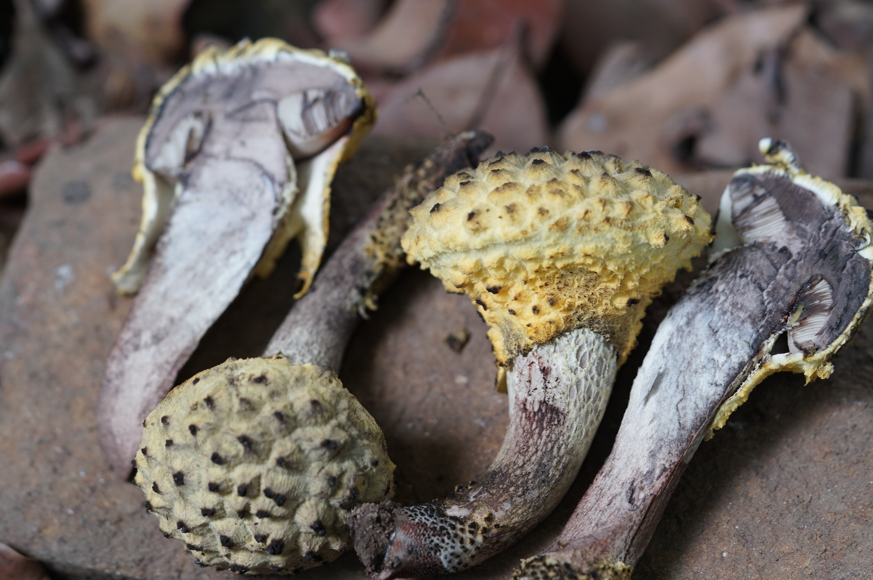 Afroboletus luteolus_in field